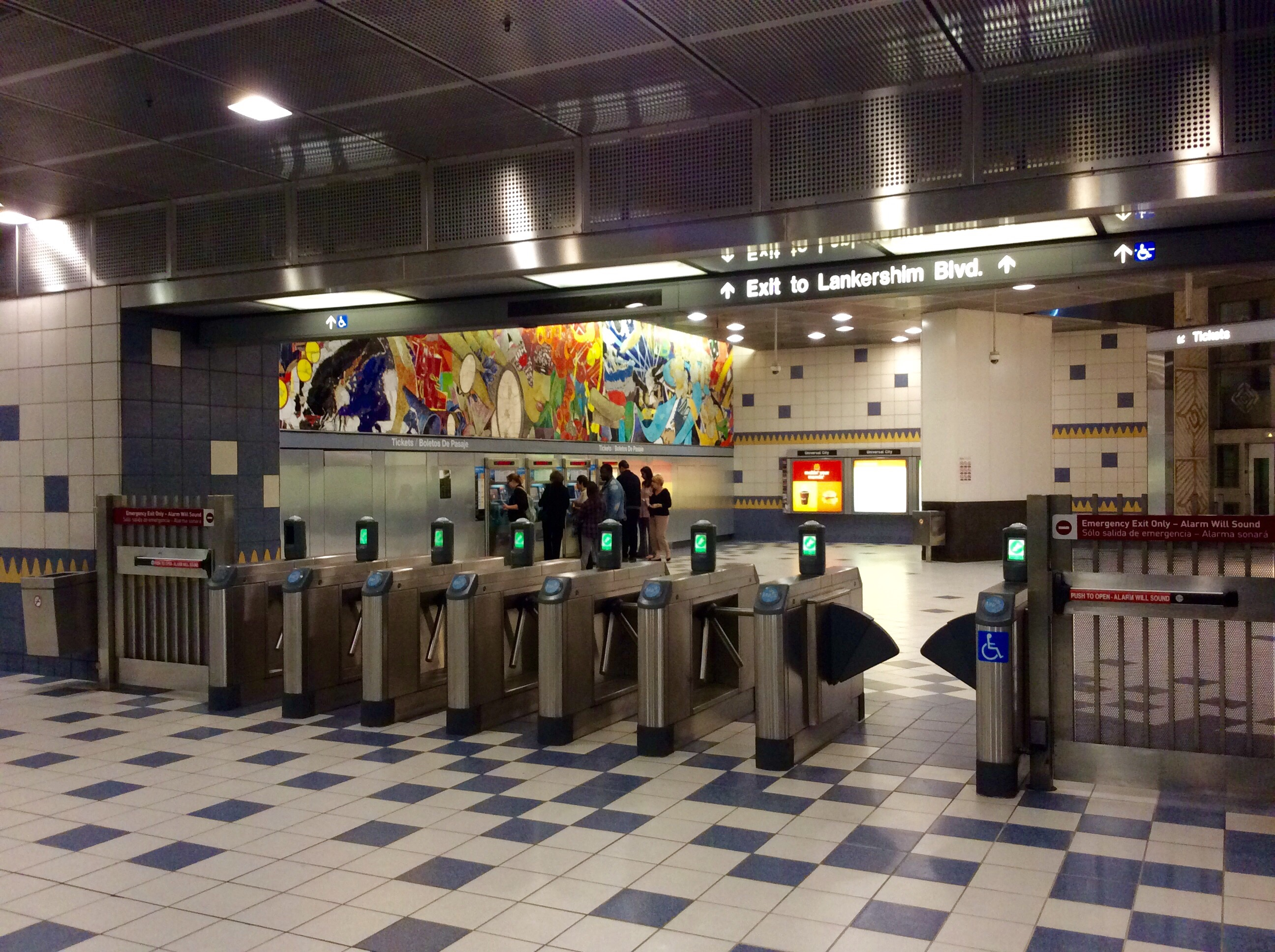 The ticket machine and ticket gate of Universal City/Studios City Station.